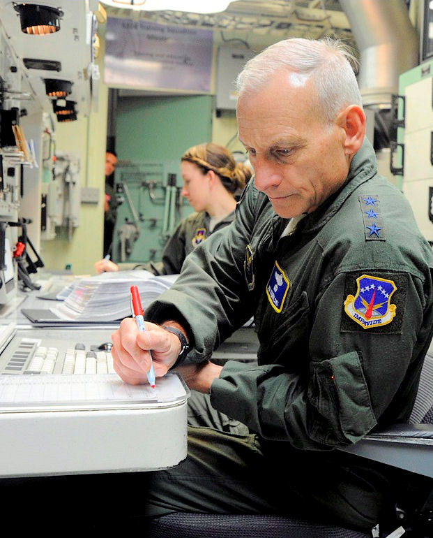 VANDENBERG AIR FORCE BASE, Calif. -- Lt. Gen. James Kowalski, Air Force Global Strike Command commander, runs through a procedural checklist during a launch simulation at the 532nd Training Squadron test simulator here Thursday, 6 Dec., 2012. Kowalski was visiting Vandenberg AFB as a special guest speaker for a 532 TRS graduation ceremony. (U.S. Air Force photo/Michael Peterson)